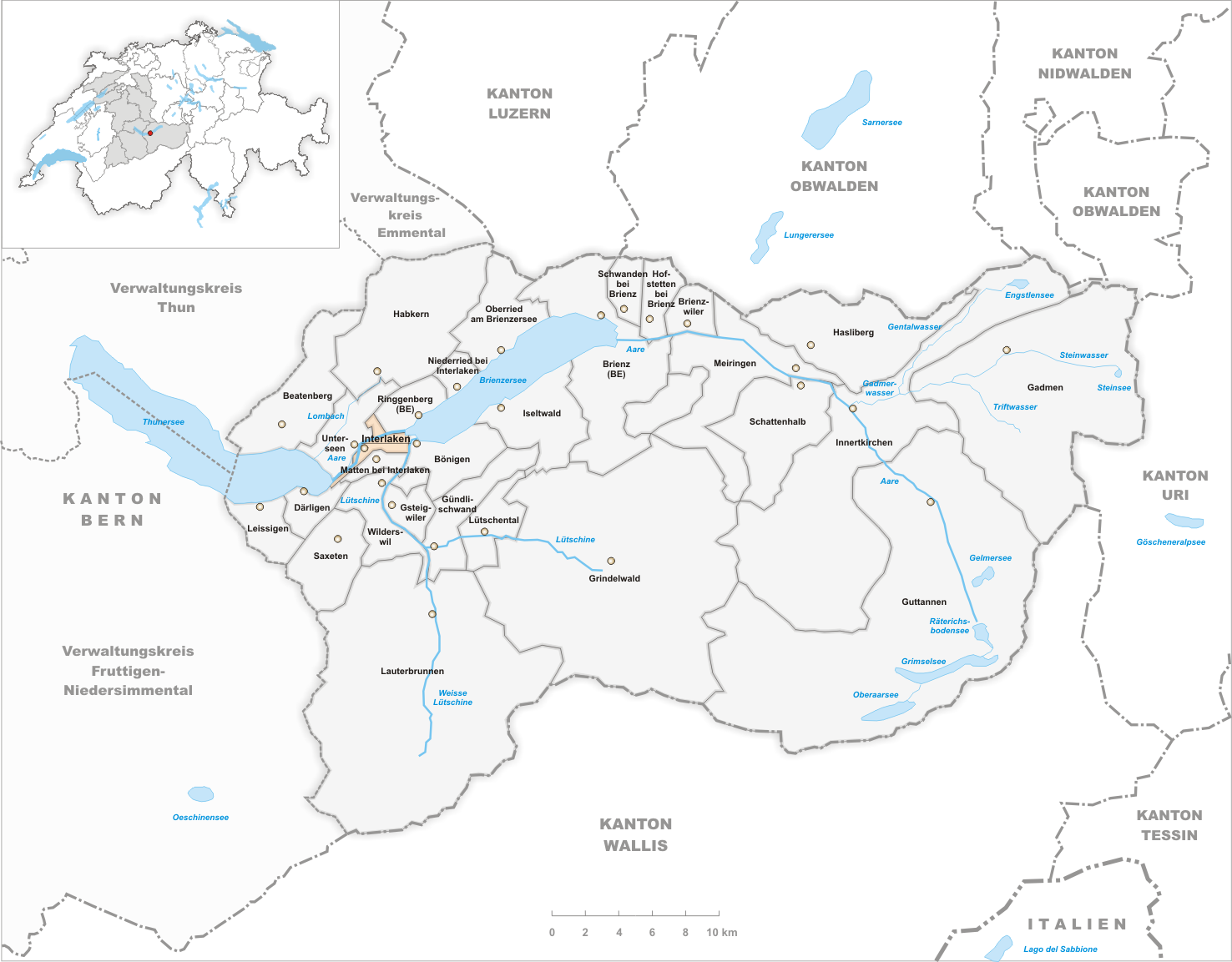 Municipality Interlaken